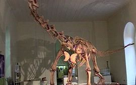 Reconstructed fossil of Maxakalisaurus topai from Serra da Boa Vista mountain, Minas Gerais, Brazil. On display at the National Museum of Brazil.